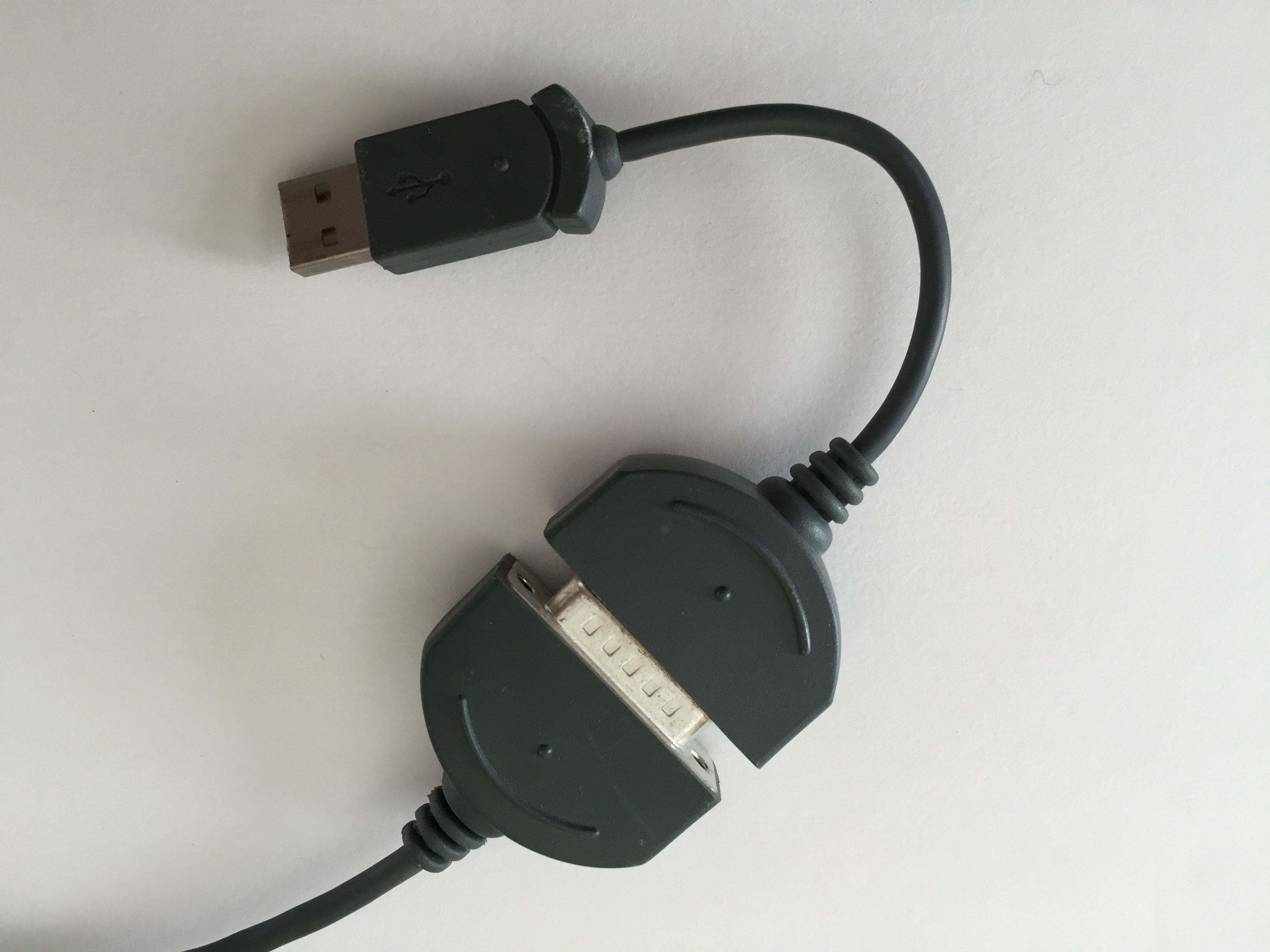 The Microsoft Sidewinder Precision Pro joystick's actual output used the traditional IBM-style "game port", but in keeping with the transition to USB taking place in the early 2000s, used an inline game-port-to-USB adaptor for connection to newer systems.